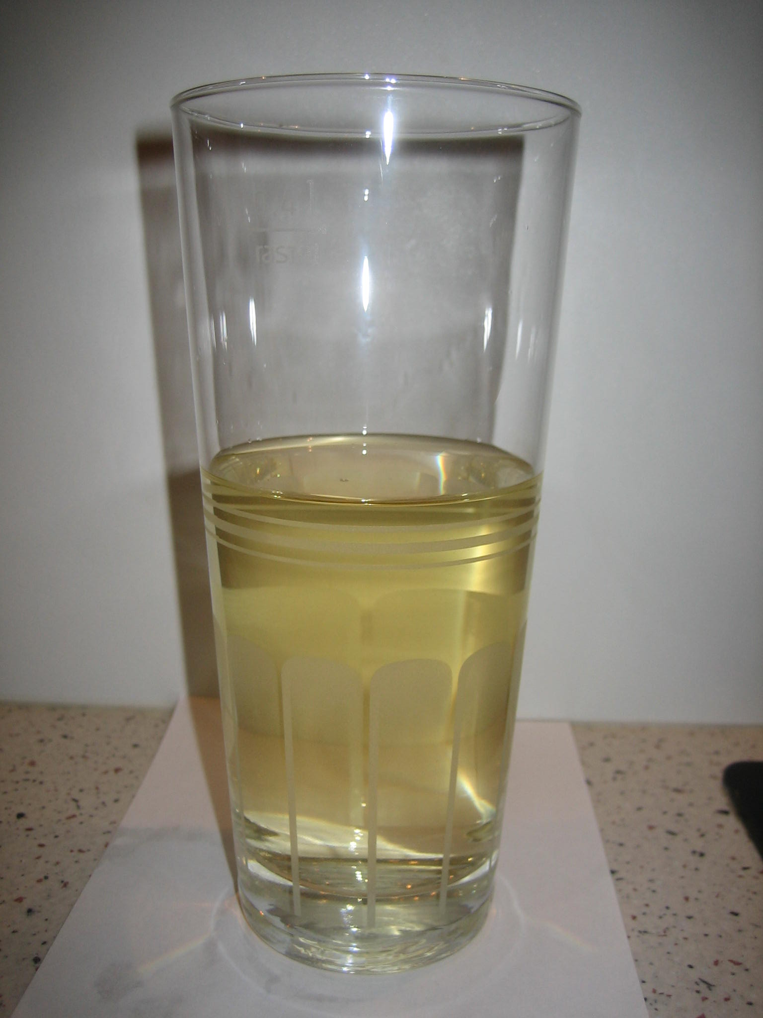 Traditionnel wine glass of Mainz, called “Mainzer Stange” , industrial version as moulded glass .